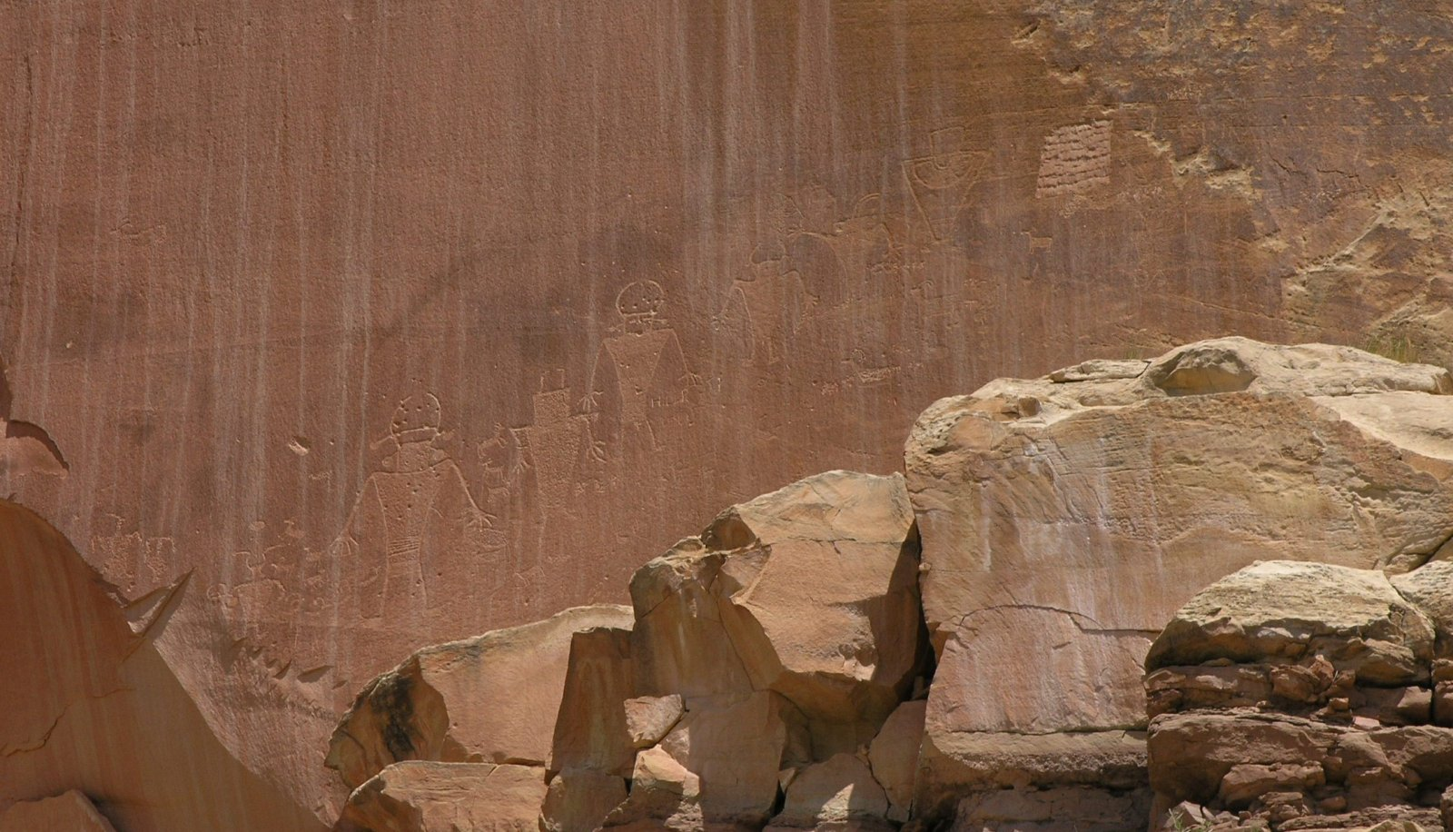 Picture taken by Daniel Mayer in late June 2005.